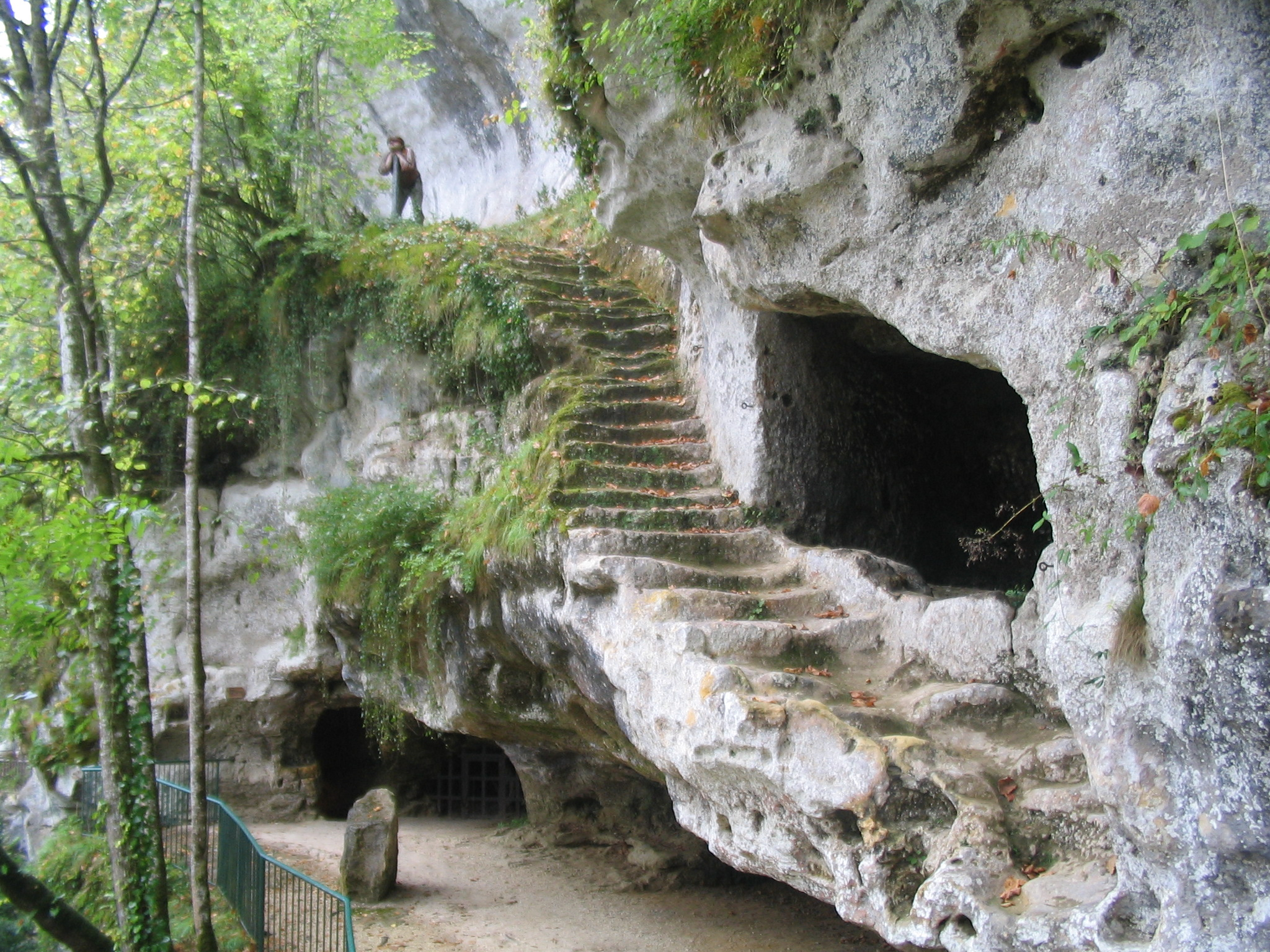 St. Christophe Rock